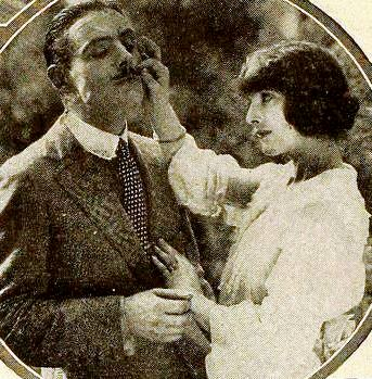 Still from the American mystery film The Teeth of the Tiger (1919) with David Powell and Marguerite Courtot, on page 76 of the February 1920 Motion Picture Magazine.